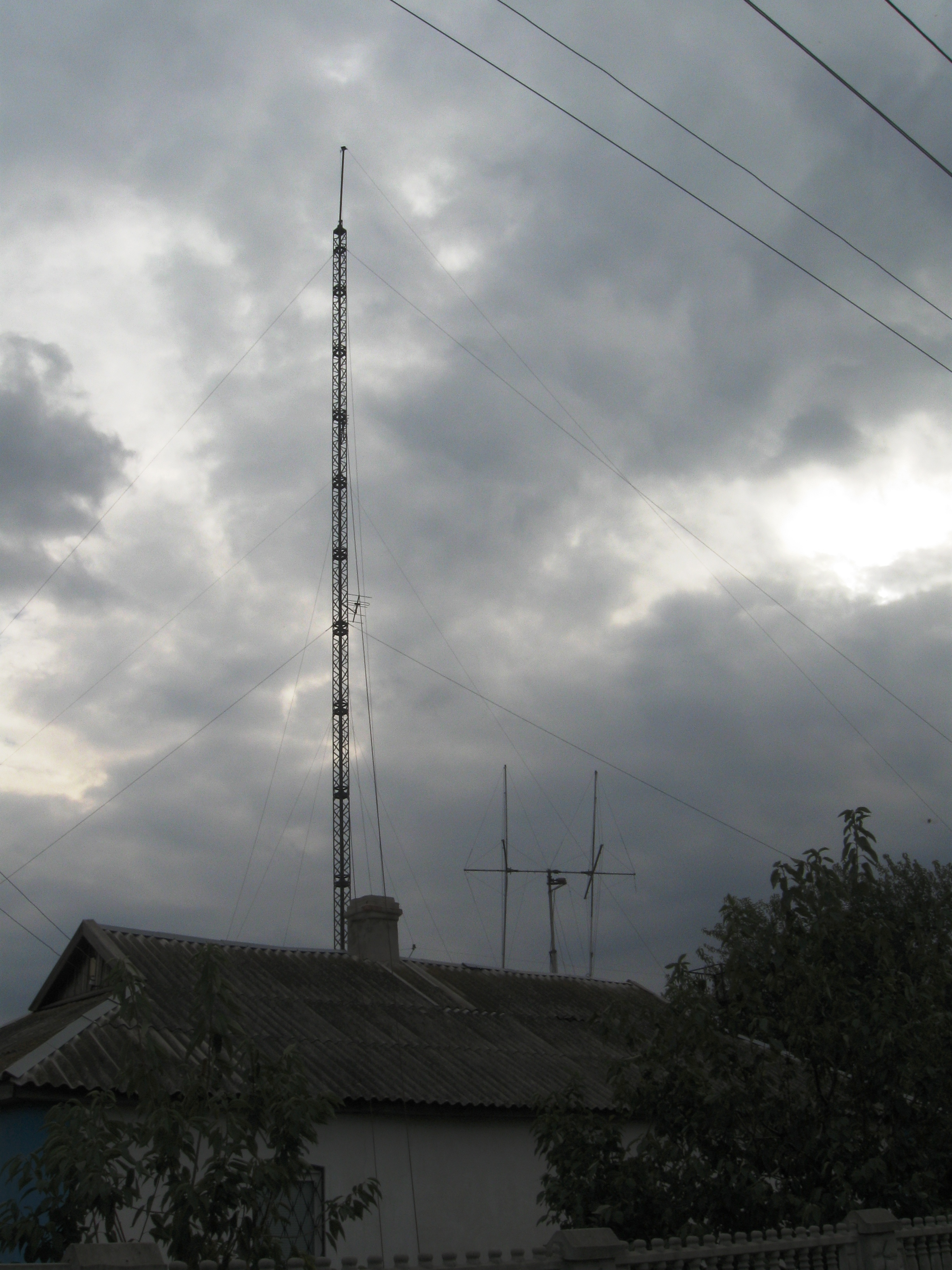 Military radio antenna, set by a local radio amator, Zarichne village, Melitopol raion, Ukraine